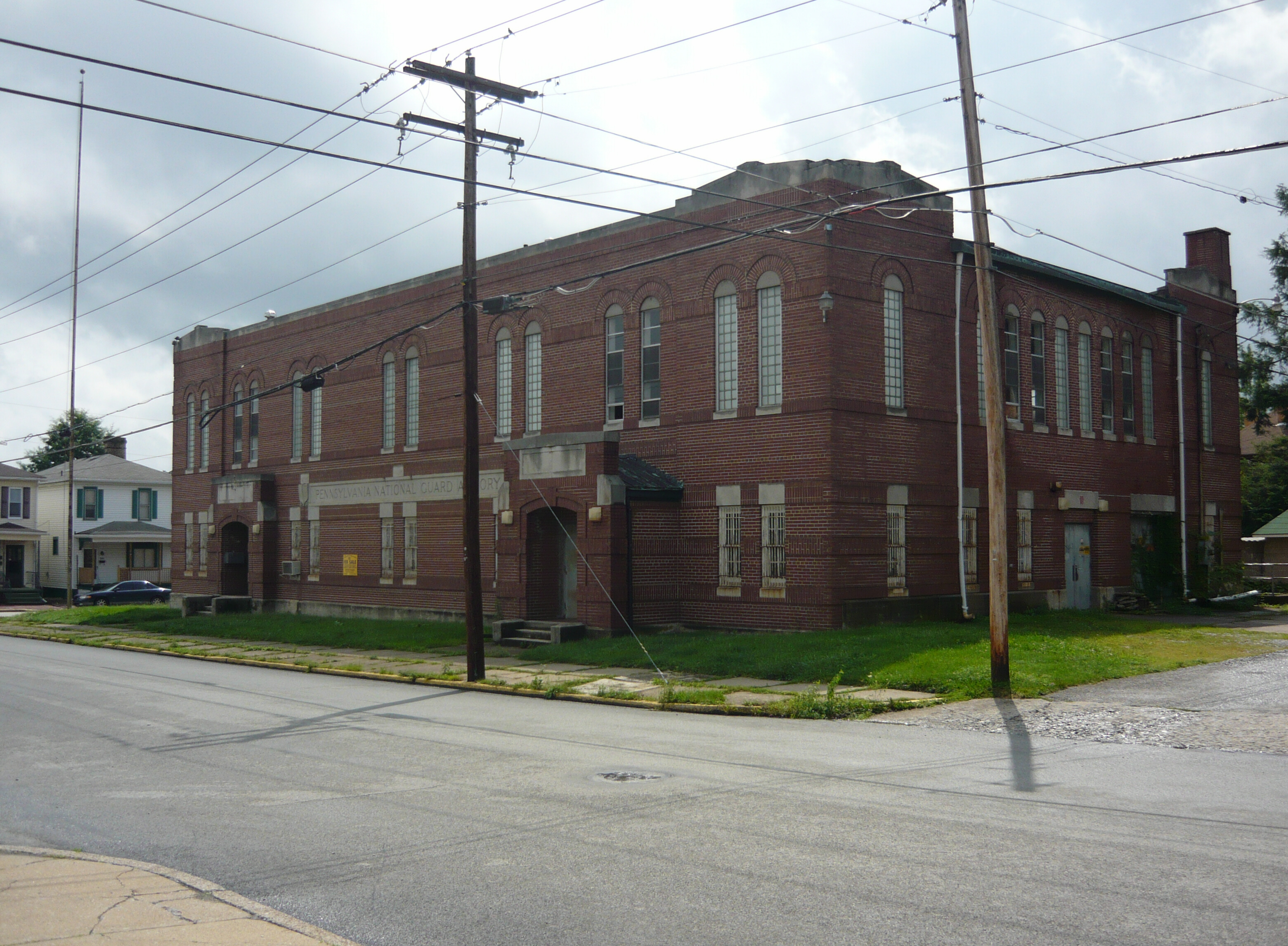 1017 Ridge Avenue (at Spring Street), Latrobe, Pennsylvania. Joseph F. Kuntz, architect. Built 1927, demolished 2011.